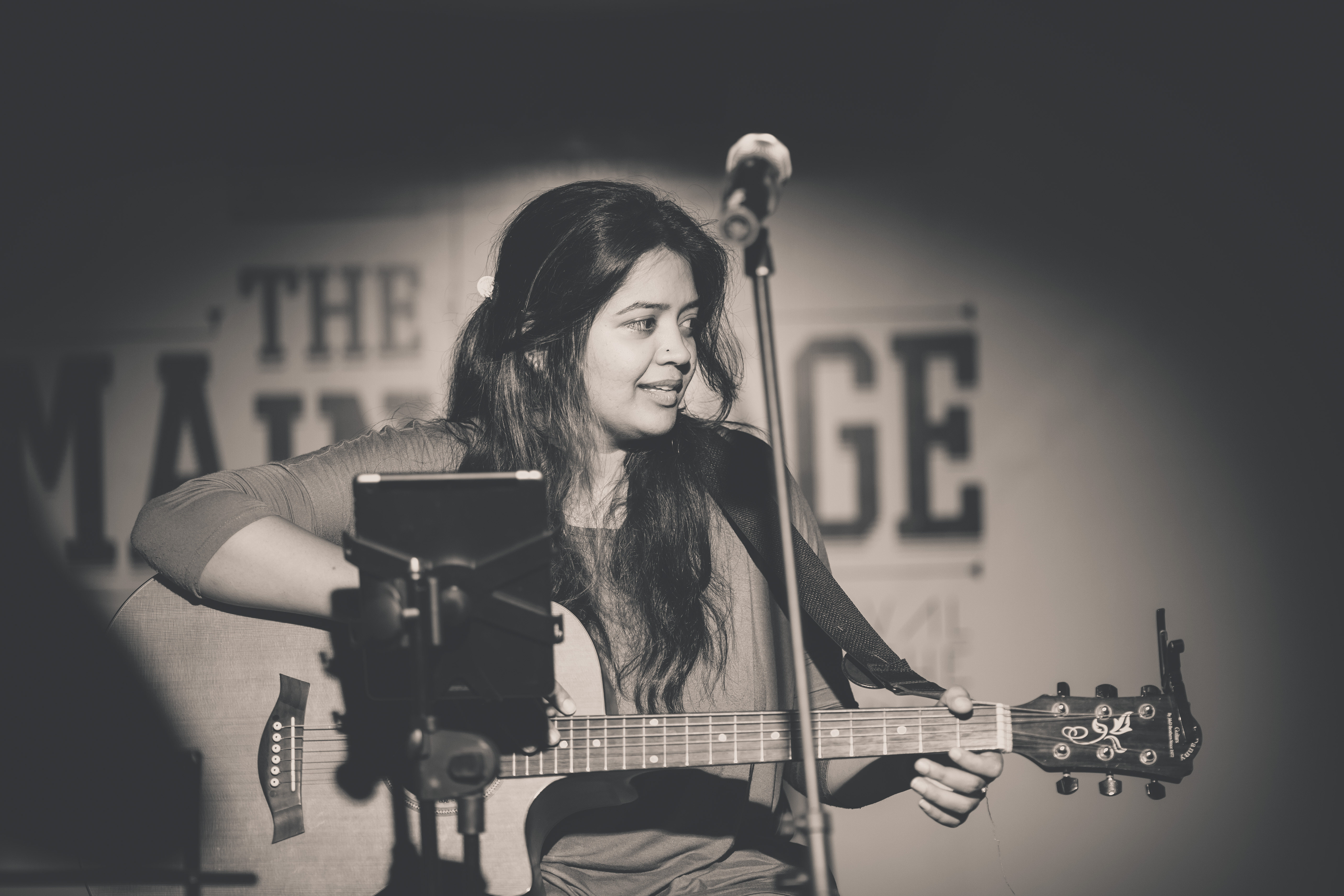 Shilpa Natarajan performs live at The Mainstage Festival